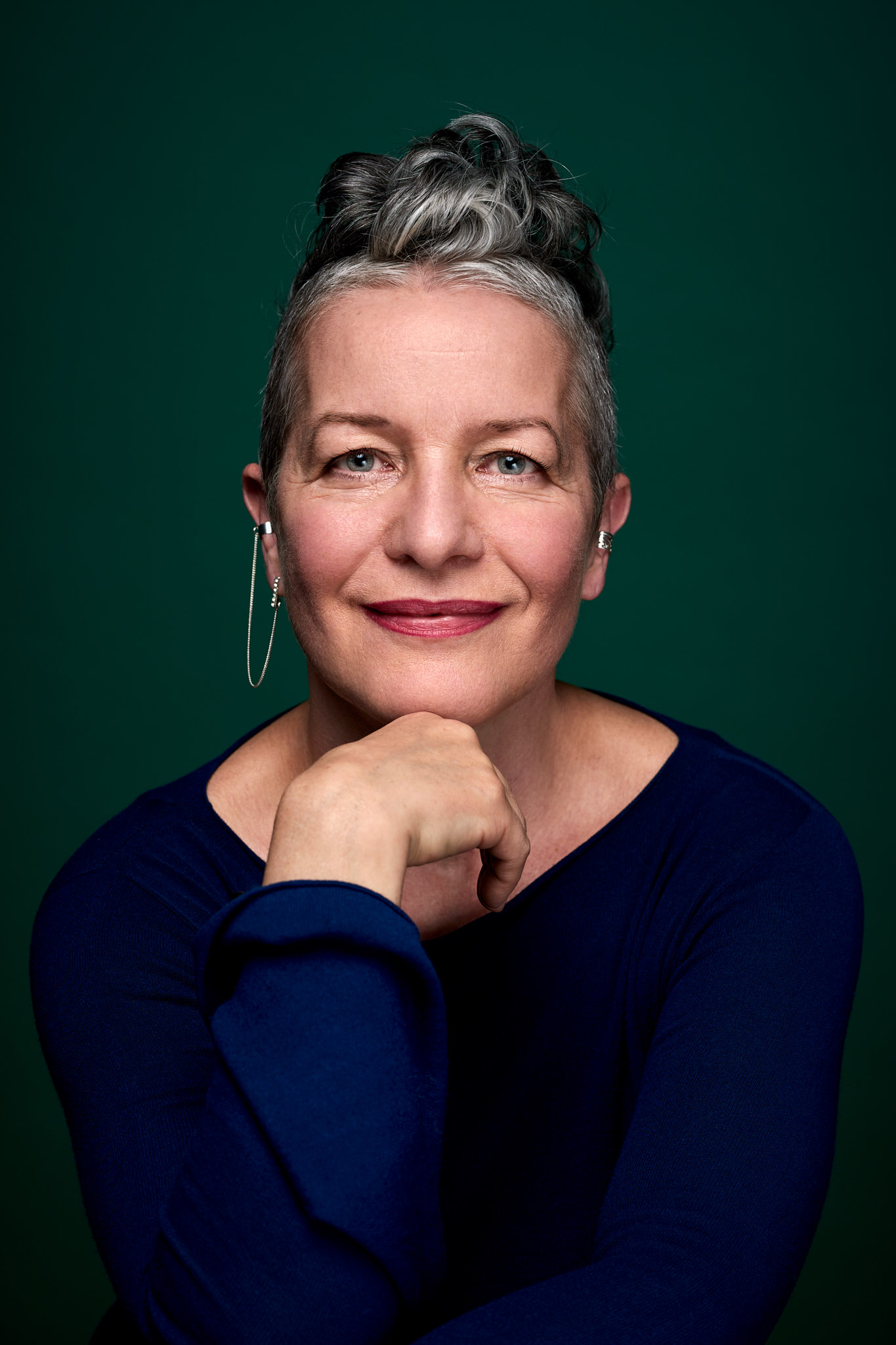 Clara Welten by Saskia Uppenkamp | Photographer